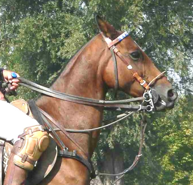 Polo pony wearing a standard Pelham type polo bridle: pelham bit with double reins, draw reins on the snaffle rings attached to the saddle billets; standing martingale with rope noseband (cavesson) and neck strap; polo breastplate with separate neck strap (hangar). The reins are knotted and held in the rider's left hand, together with a long polo whip. The whip is long enough for the rider touch the pony on its rump while holding the reins.